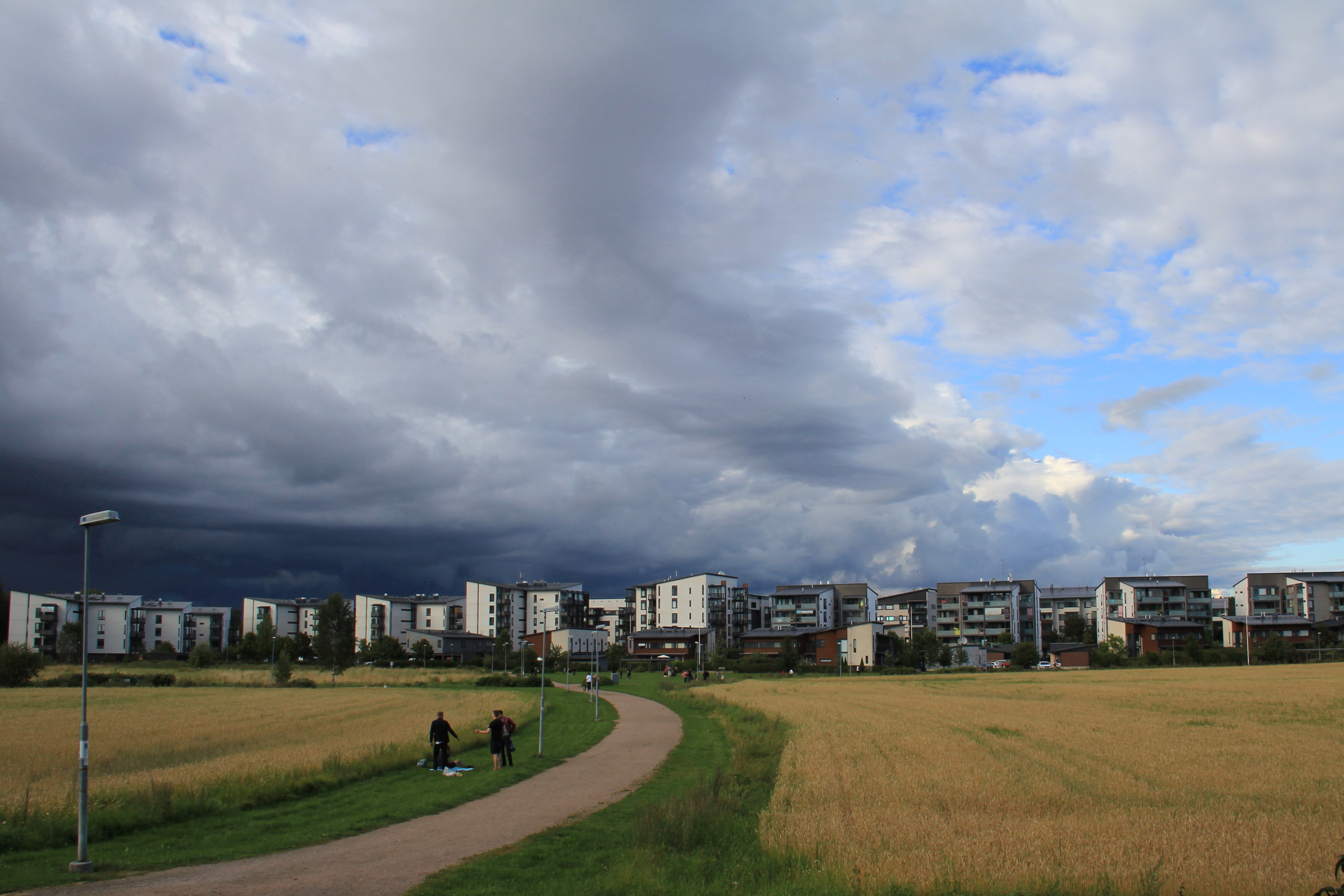 A view of Fallkulla residential area in Malmi neighbourhood , Helsinki, Finland. - Seen from south.